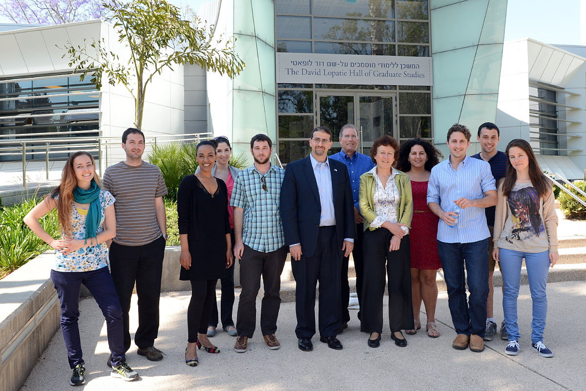 This is Rocket Science!